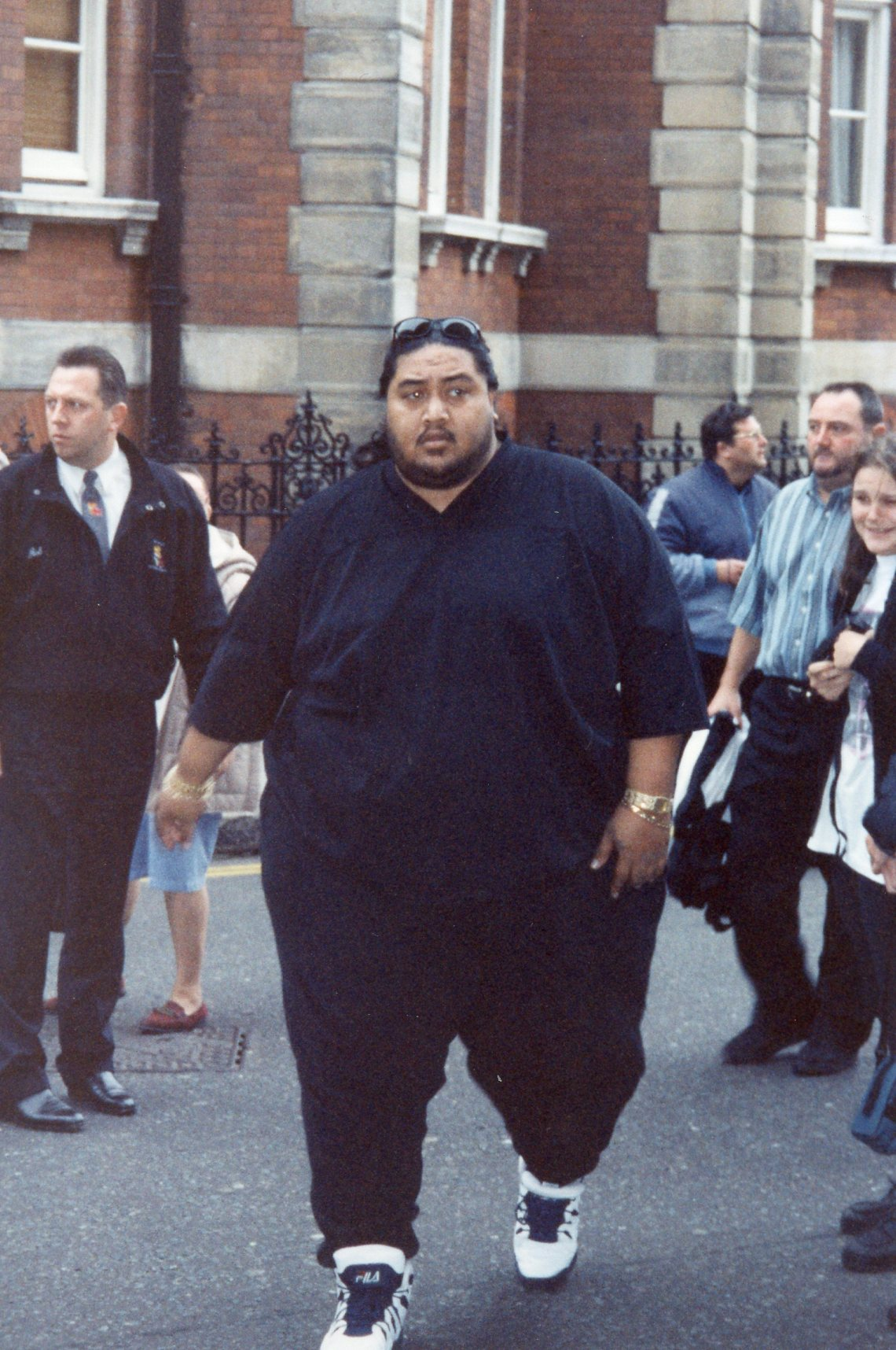 Professional wrestler Rodney Anoa'i in october 1995.